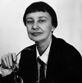 Ukranian poetess